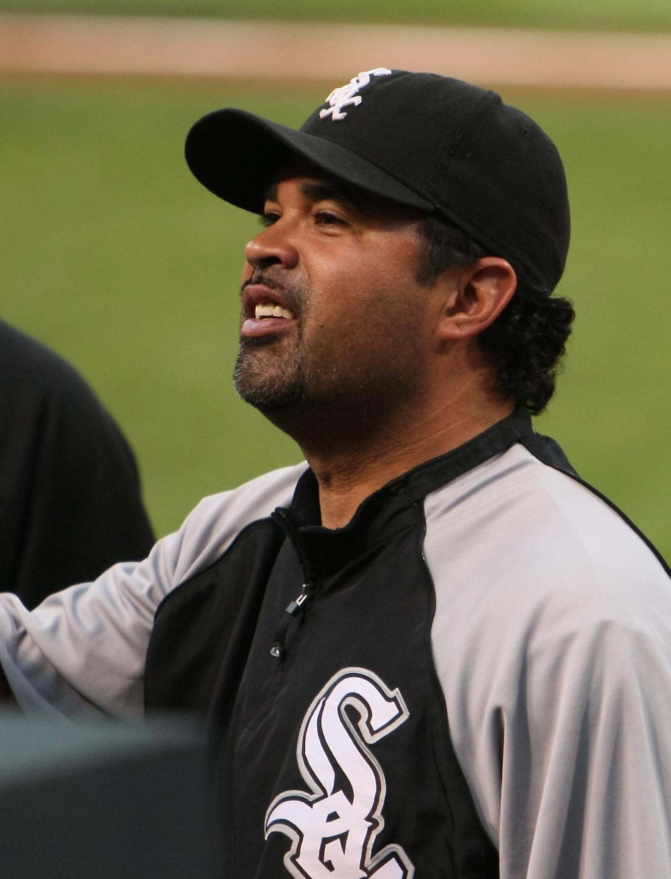 Ozzie Guillen as manager of the Chicago White Sox